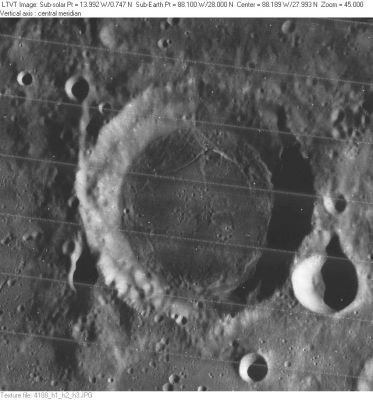 LO-IV-188H